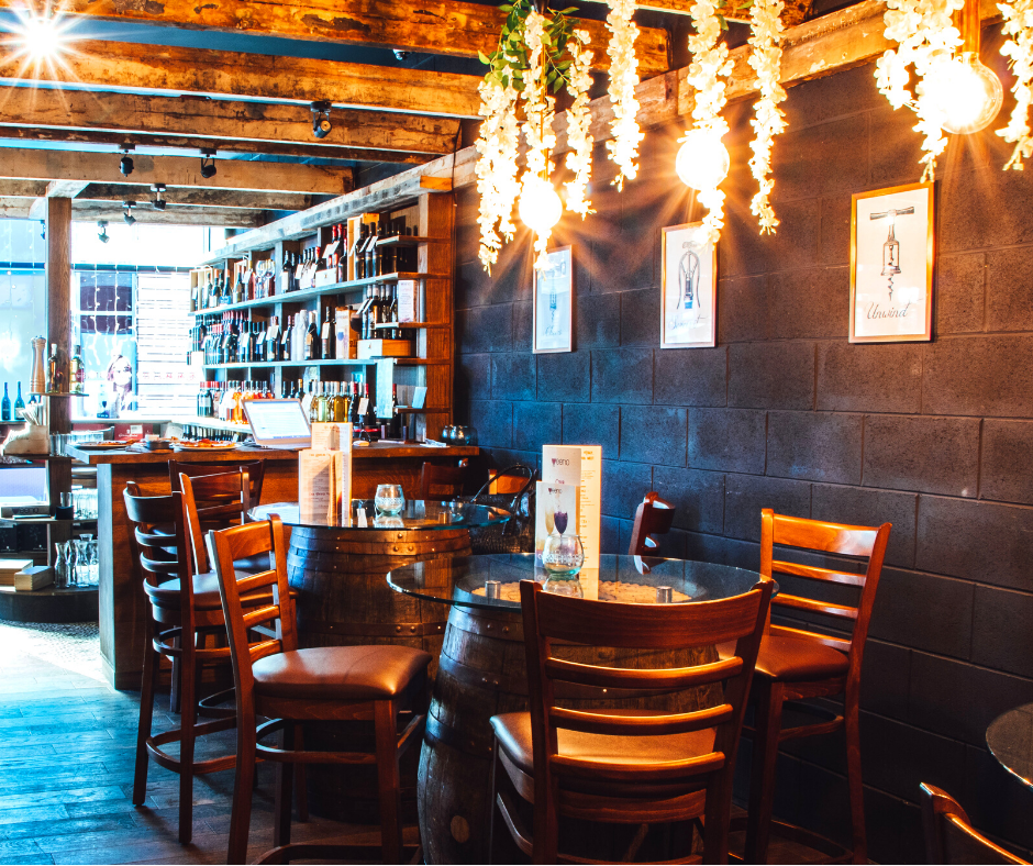 Veeno